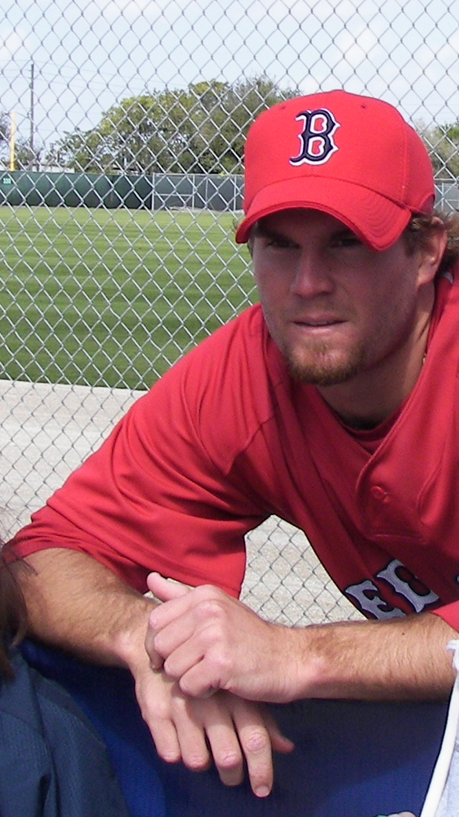 Boston Red Sox pitcher Kason Gabbard signing autographs at the Red Sox' minor league complex in Fort Myers, Florida during pitching/catching workouts.